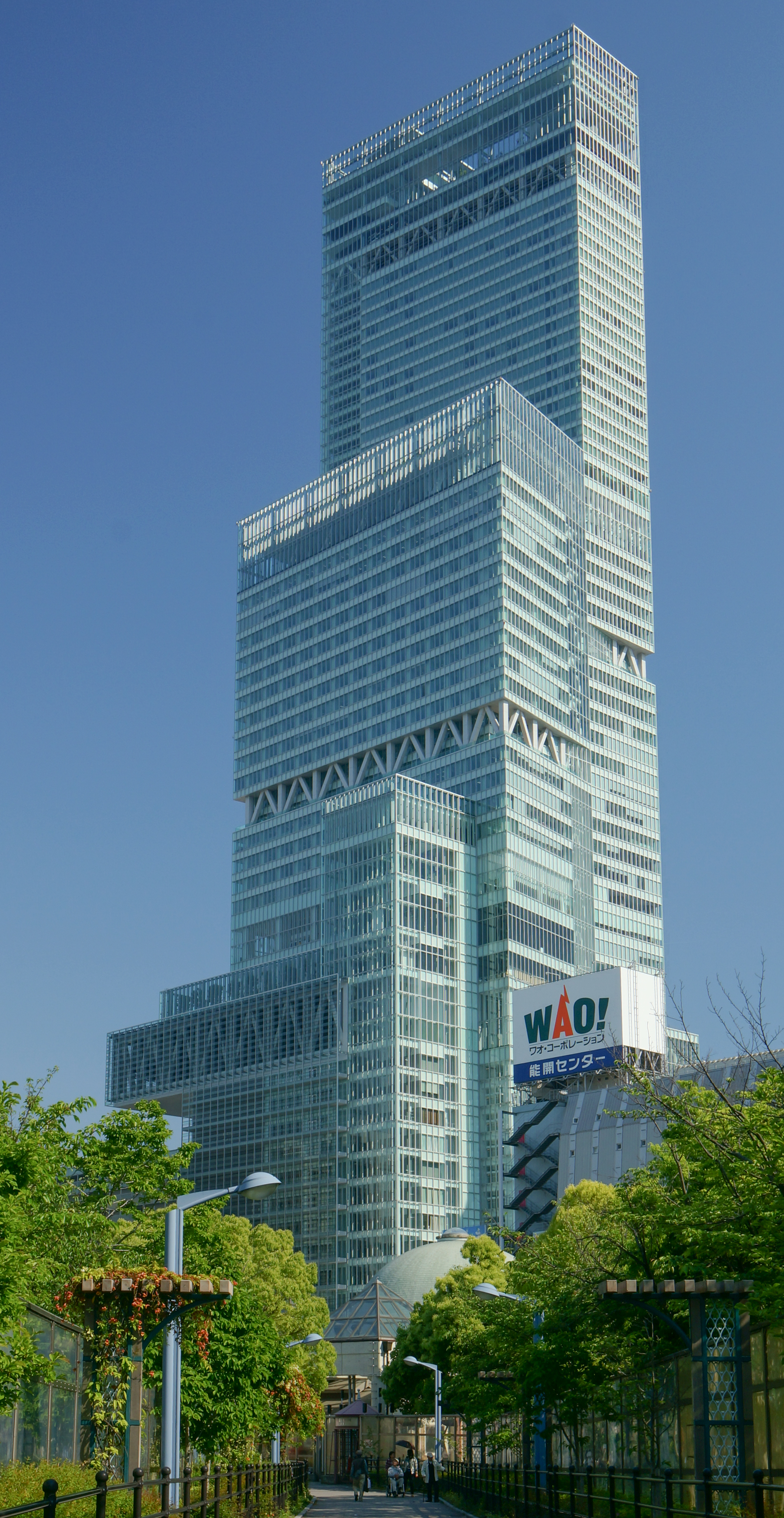 Photograph of the northwest side view of "Abeno Harukas" skyscraper, reconstruction of Abenobashi Terminal Building, in Abeno-ku, Osaka, Osaka Prefecture, Japan.